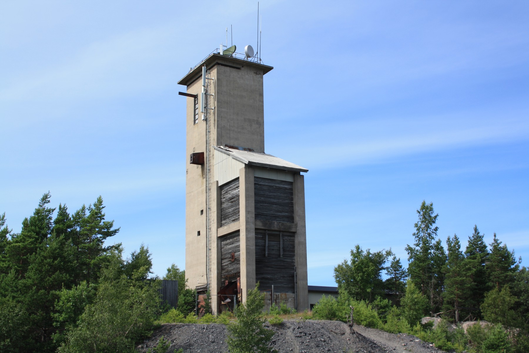 Mining building on Jussarö island, Raseborg, Finland